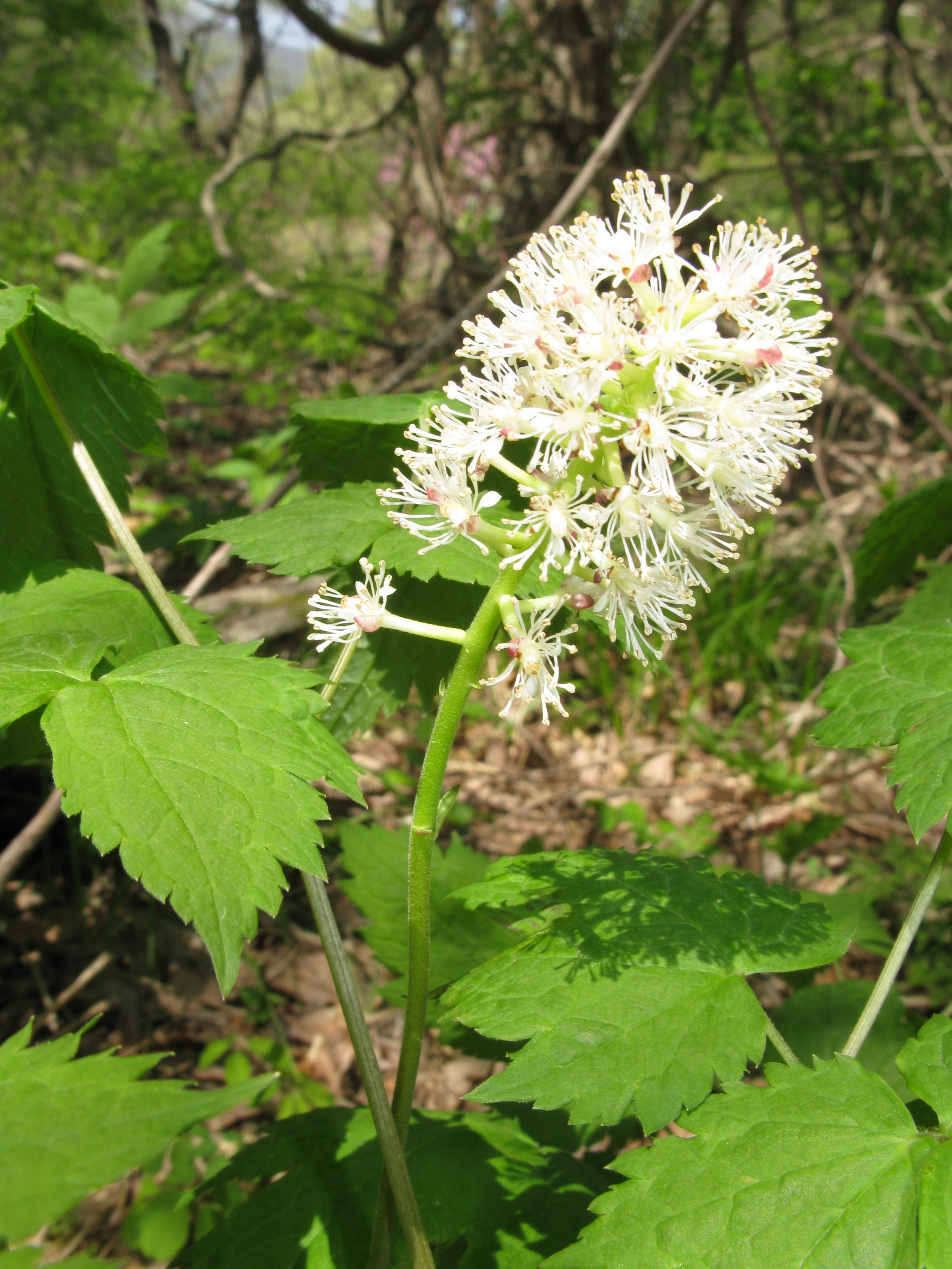 Actaea asiatica, Aizu area, Fukushima pref., Japan